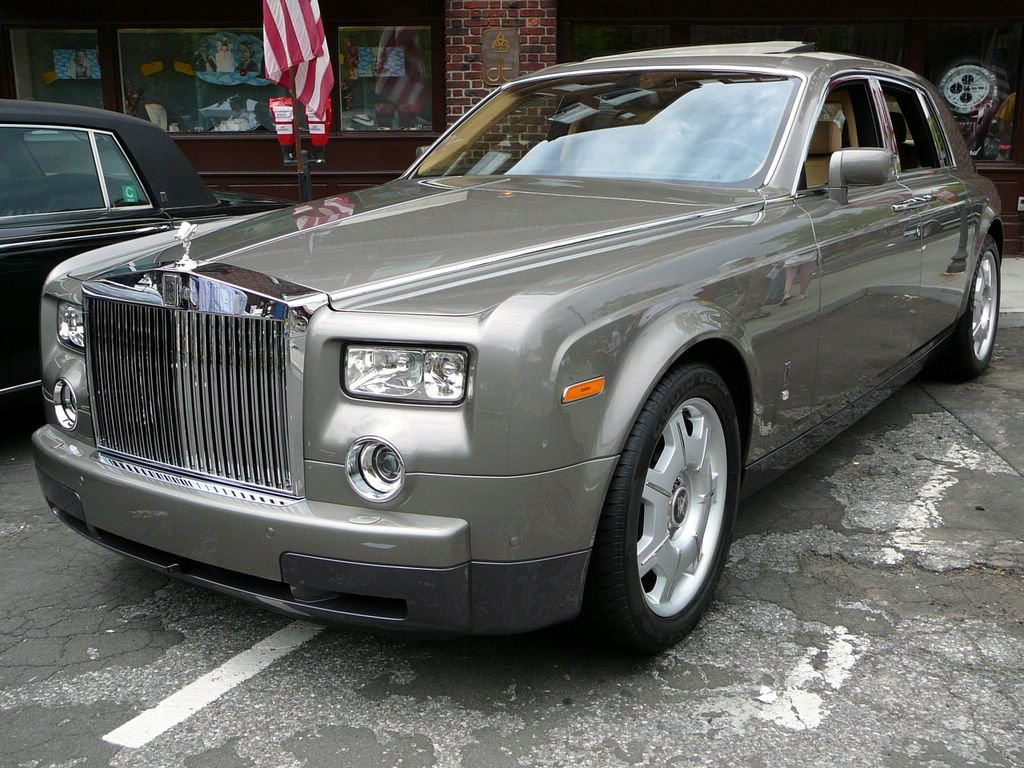 Luxury cars are often stated to be desirable due to their price, which generates a certain amount of status. As a result it is argued that luxury cars are Veblen goods.